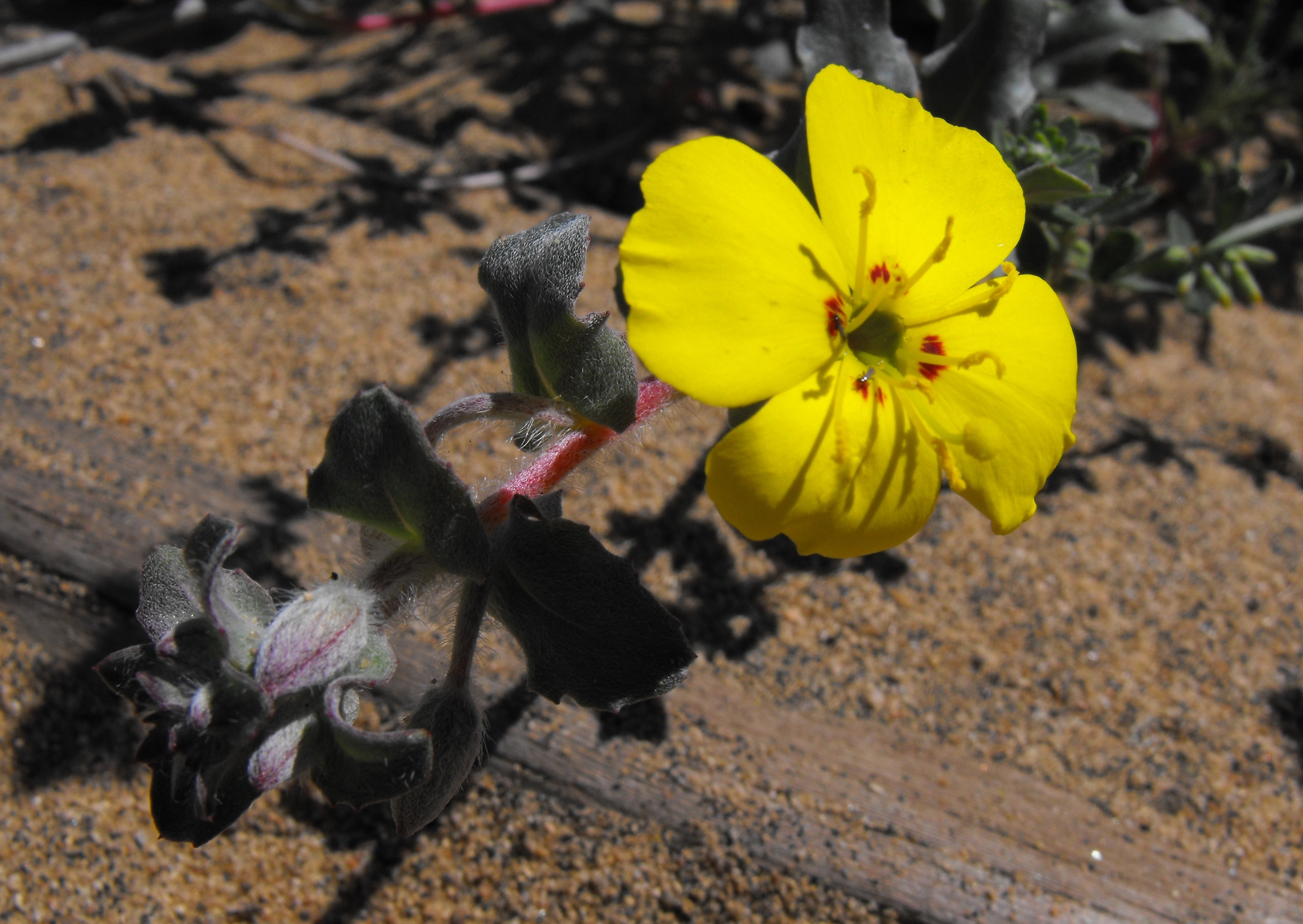 Camissoniopsis cheiranthifolia at Torrey Pines State Reserve, San Diego, California, USA.